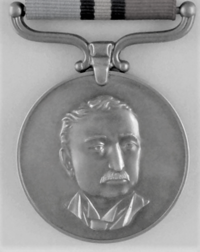 Awarded to members of the security forces and police for combating enemy incursions into Rhodesia, 1968-80.